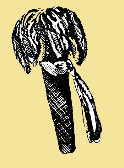 Effigy of the god Nyikango, first king of the Chollo (Shilluk) people